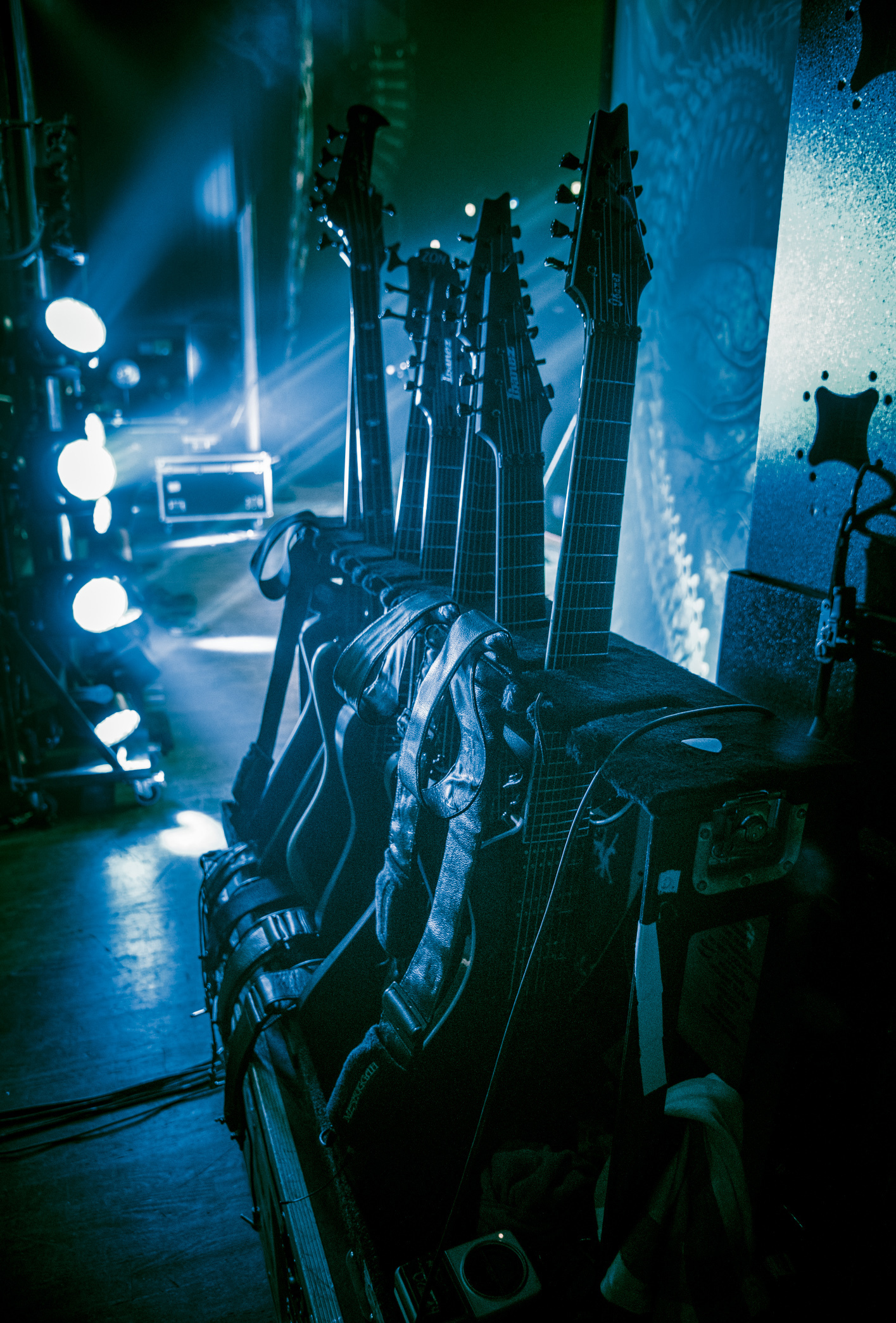 Guitars used live by Swedish metal band Meshuggah